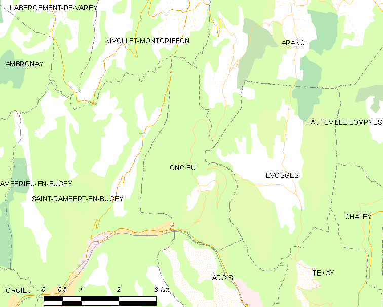 Map of French commune: Oncieu Map commune FR insee code 01279.png